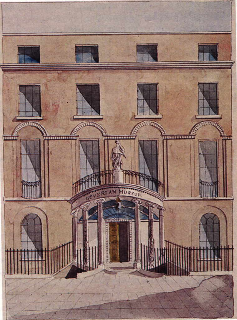 The Leverian Museum operated by Ashton Lever. "its a scan of an illustration from an exhibition catalogue from 1978/9 from the Bishop Museum in Hawaii called Traesures of the Pacific " The Holophusikon (or Holophusicon, also known as the Leverian Museum) was a museum of natural curiosities exhibited at Leicester House, on Leicester Square in London, England, from 1775 to 1786 by Ashton Lever.